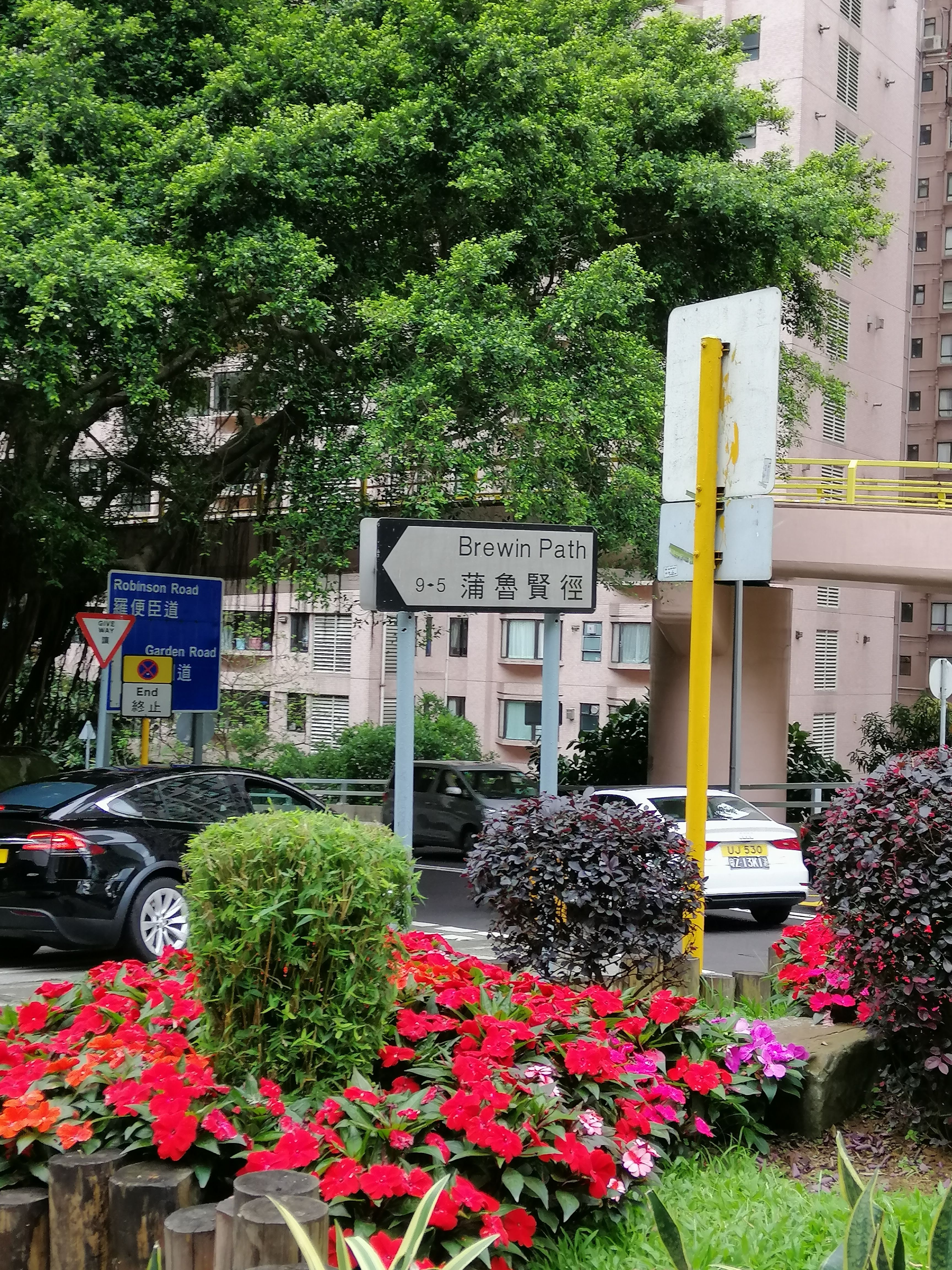 peak tram 6